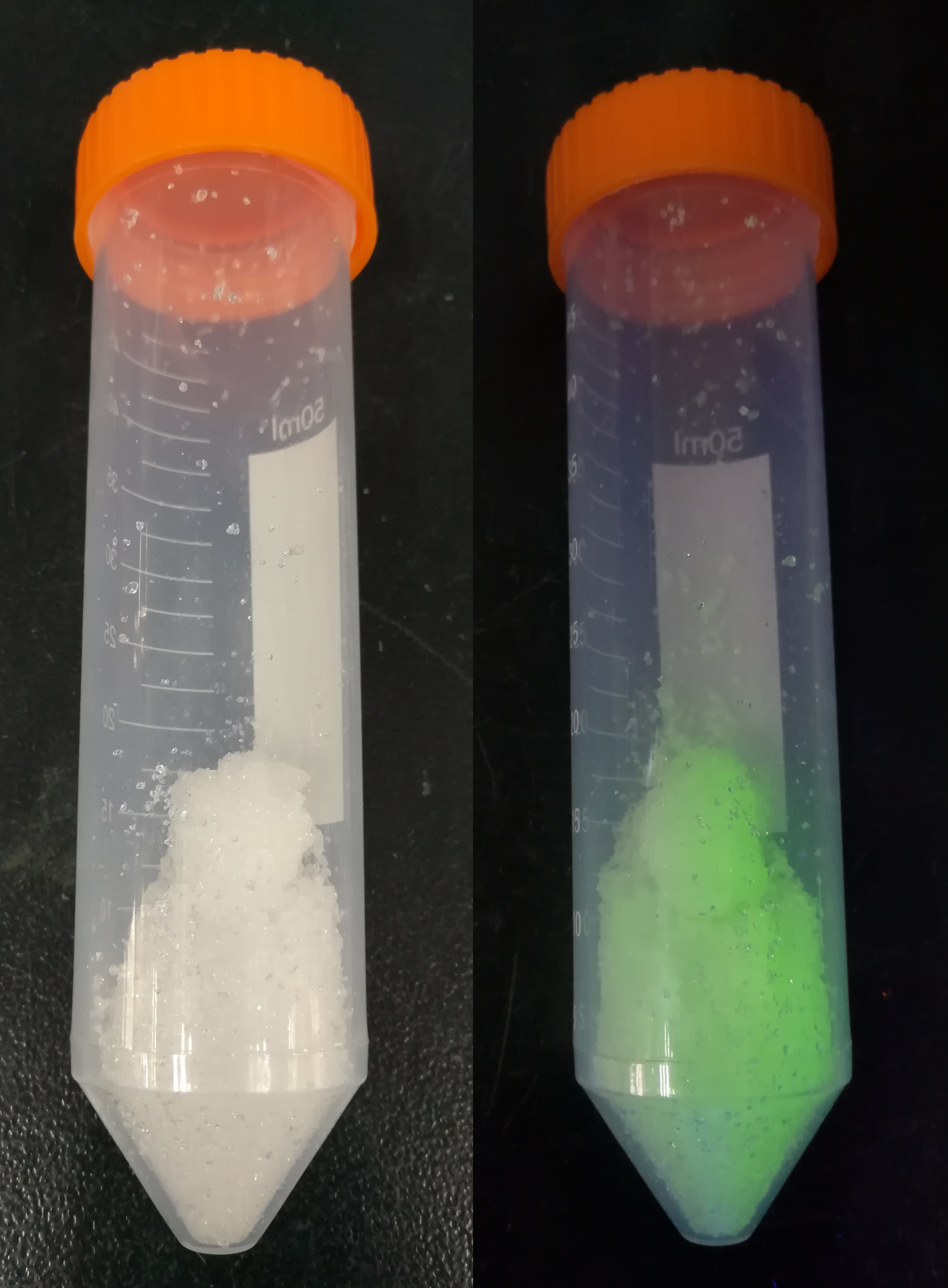 Terbium(III) nitrate hexahydrate, Tb(NO3)3·6H2O